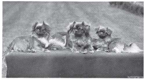 Photograph of Simkhyi dogs in Tibet - 1899